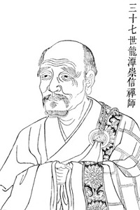 Portrait of chan master Longtan Chongxin